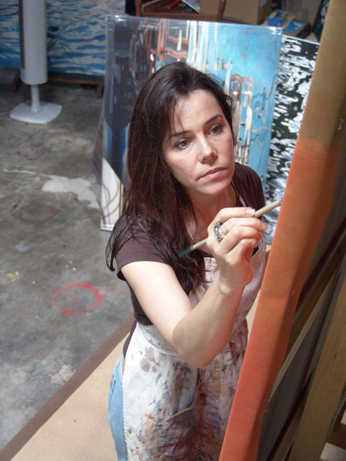 Danielle Eubank